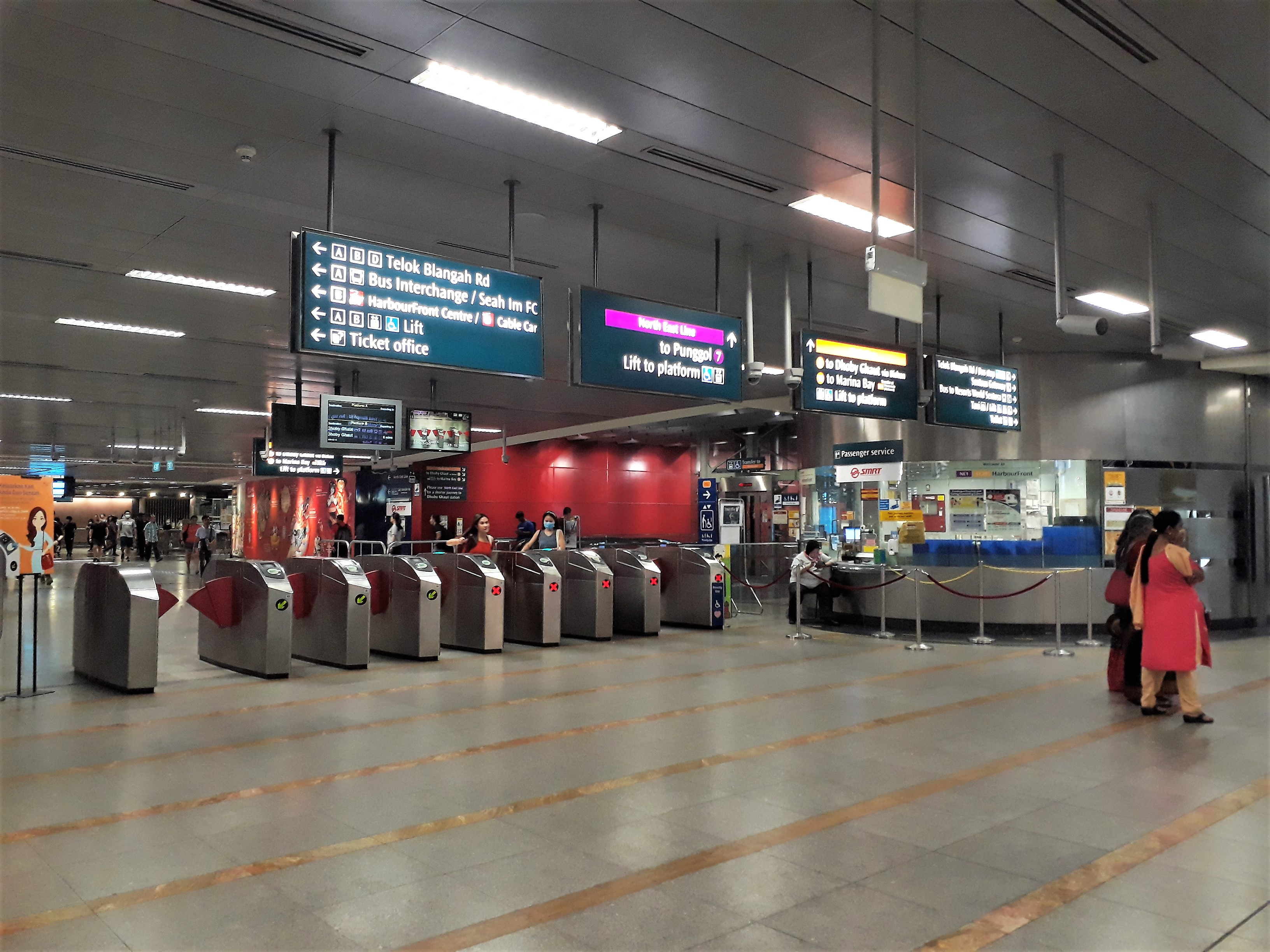 Concourse and ticket centre of Harbourfront